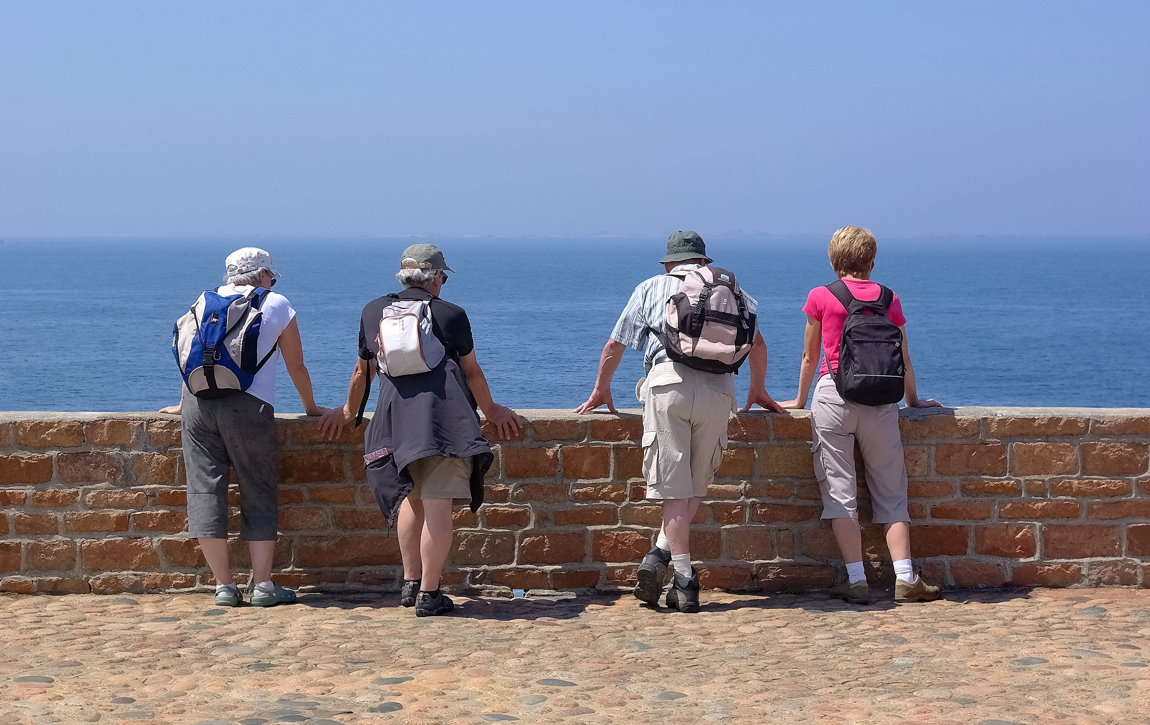 Walkers with backpacks near the Paon lighthouse, Île-de-Bréhat, Côtes-d'Armor, France.